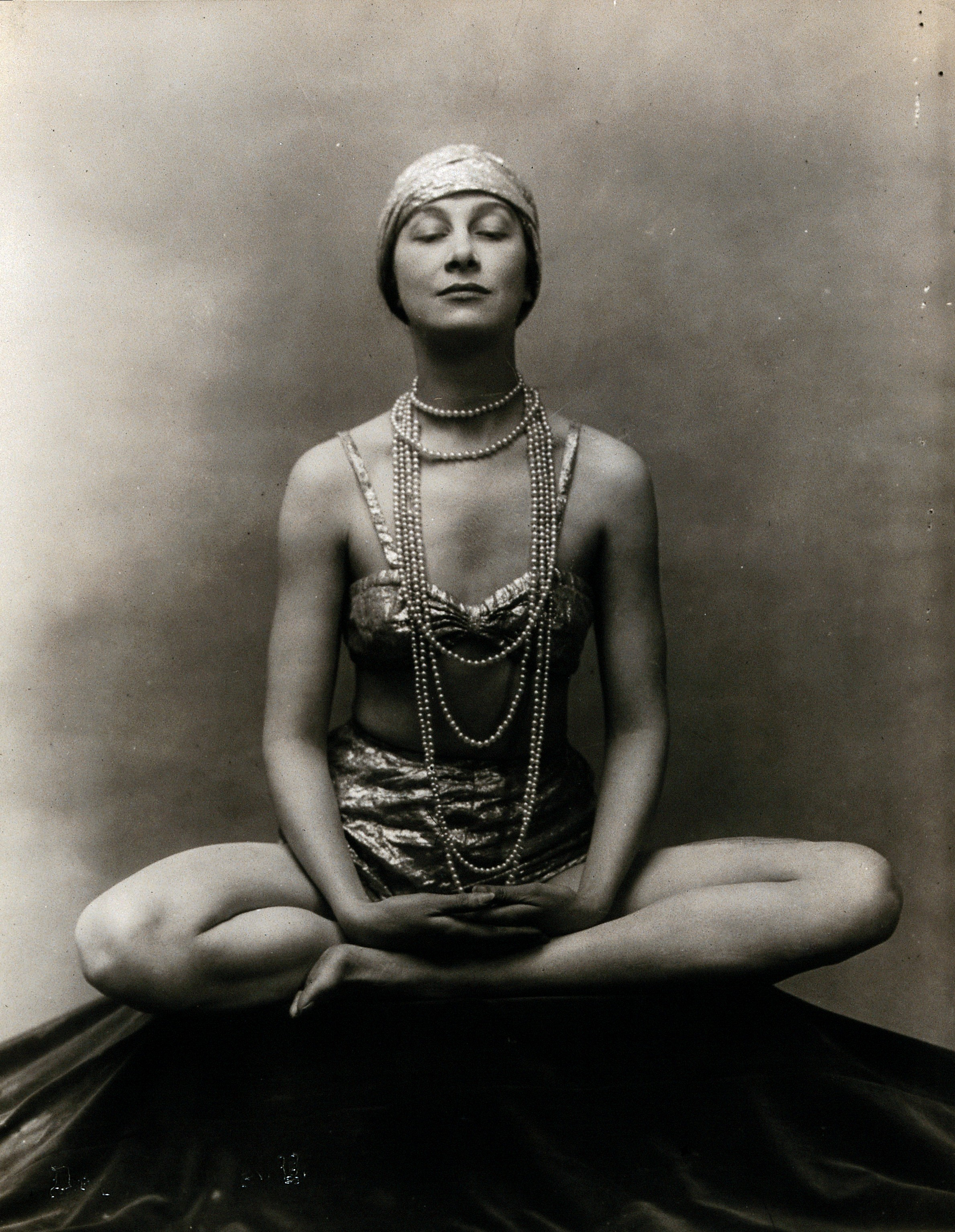 Marguerite Agniel posing sitting up in Muktasana wearing a revealing silver (?) two-piece costume and matching turban, on a rug, in a photographic studio. Photograph by J. de Mirjian, ca.1929. Iconographic Collections Keywords: buddha position; DANCE; marguerite agniel; De Mirjian Studios.; Meditation; Marguerite Agniel; Exercise